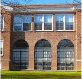 Road-facing, historic wrought iron gymnasium windows of mid-19th Century Villiage School of North Bennington, North Bennington, Vermont.